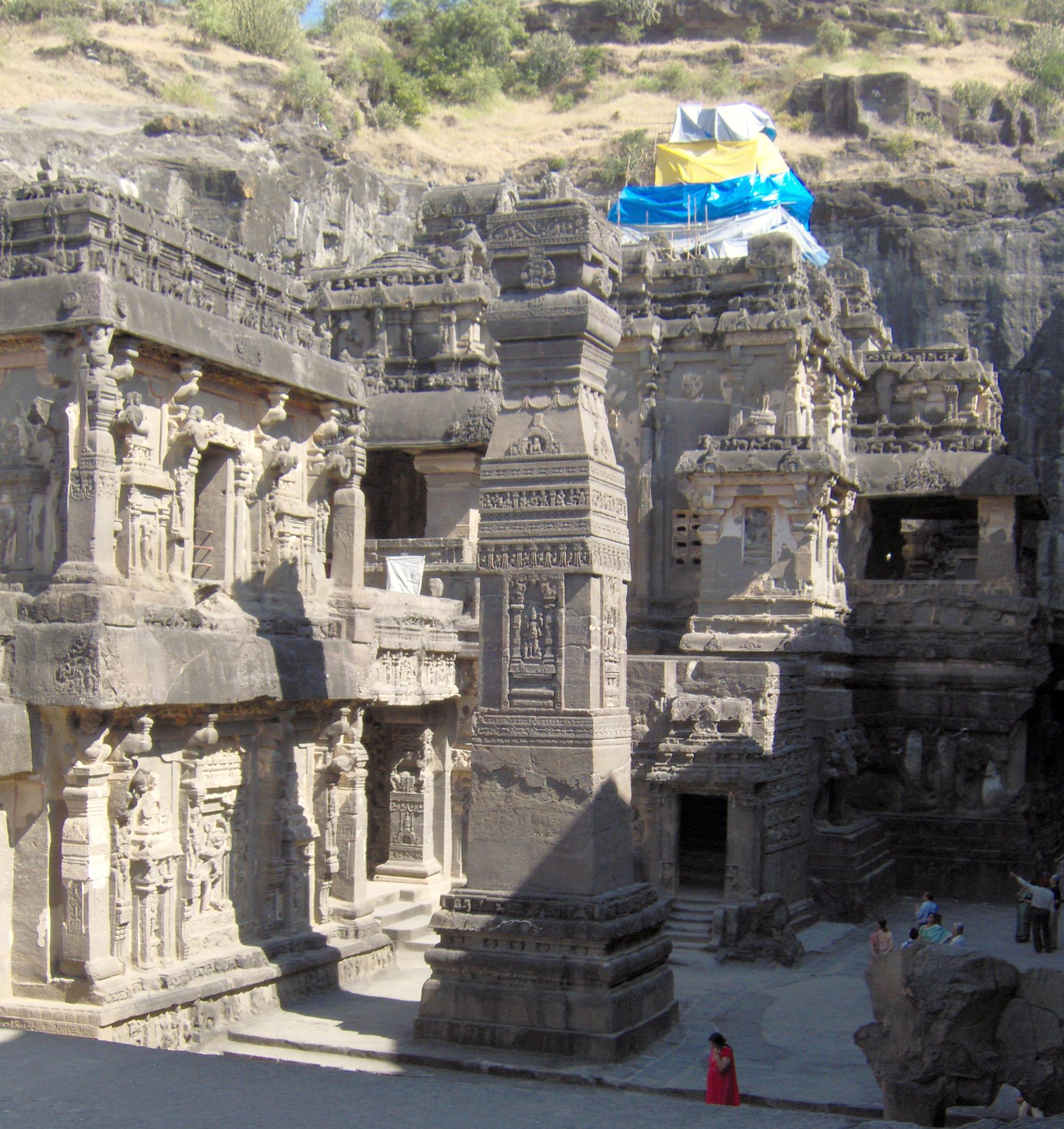 General overview of the Kailasha temple from Ellora (a.k.a Cave 16). I took the photo myself, and release it under the licenses below. QuartierLatin1968 13:30, 6 December 2005 (UTC)